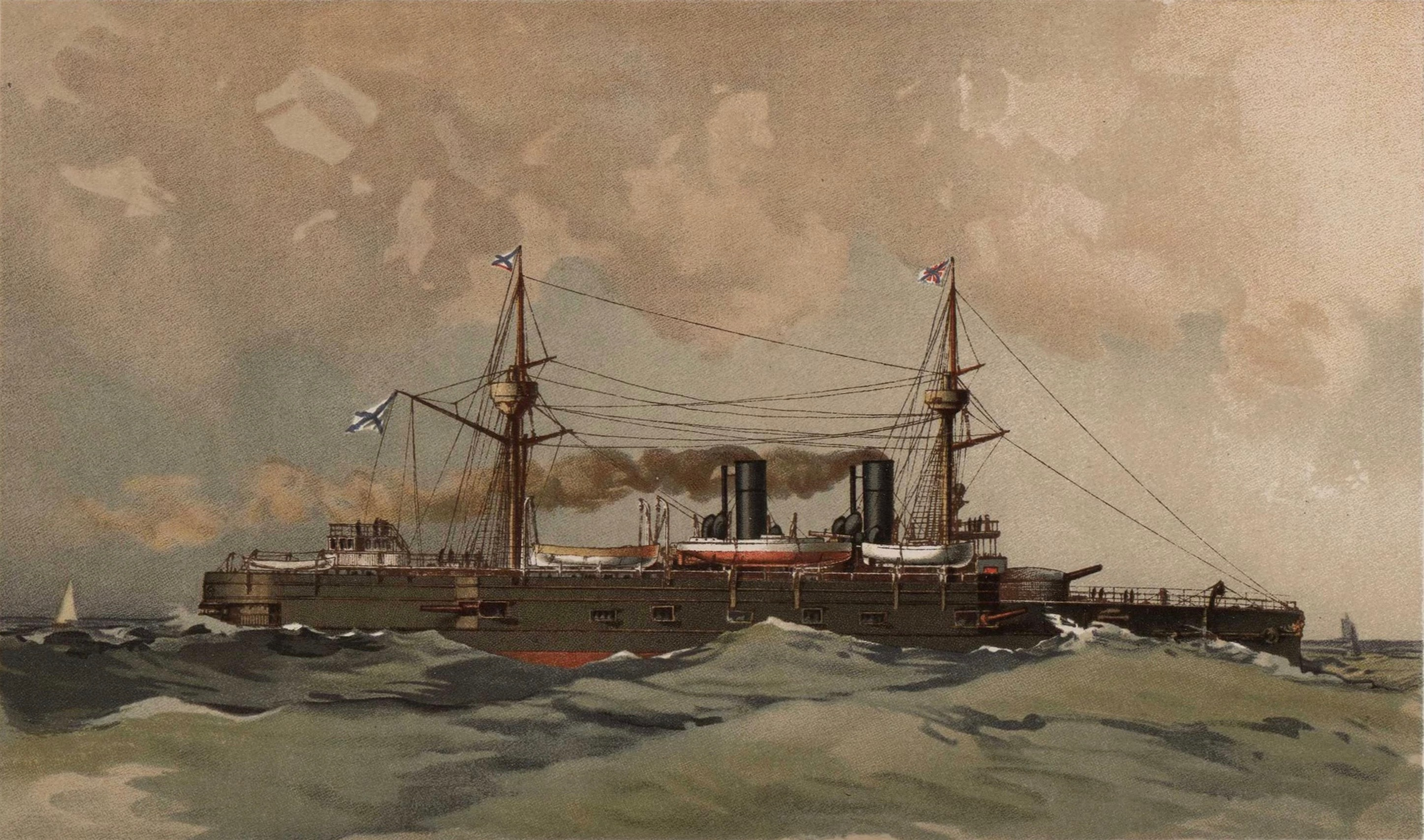 Imperator Aleksandr II (ironclad warship)